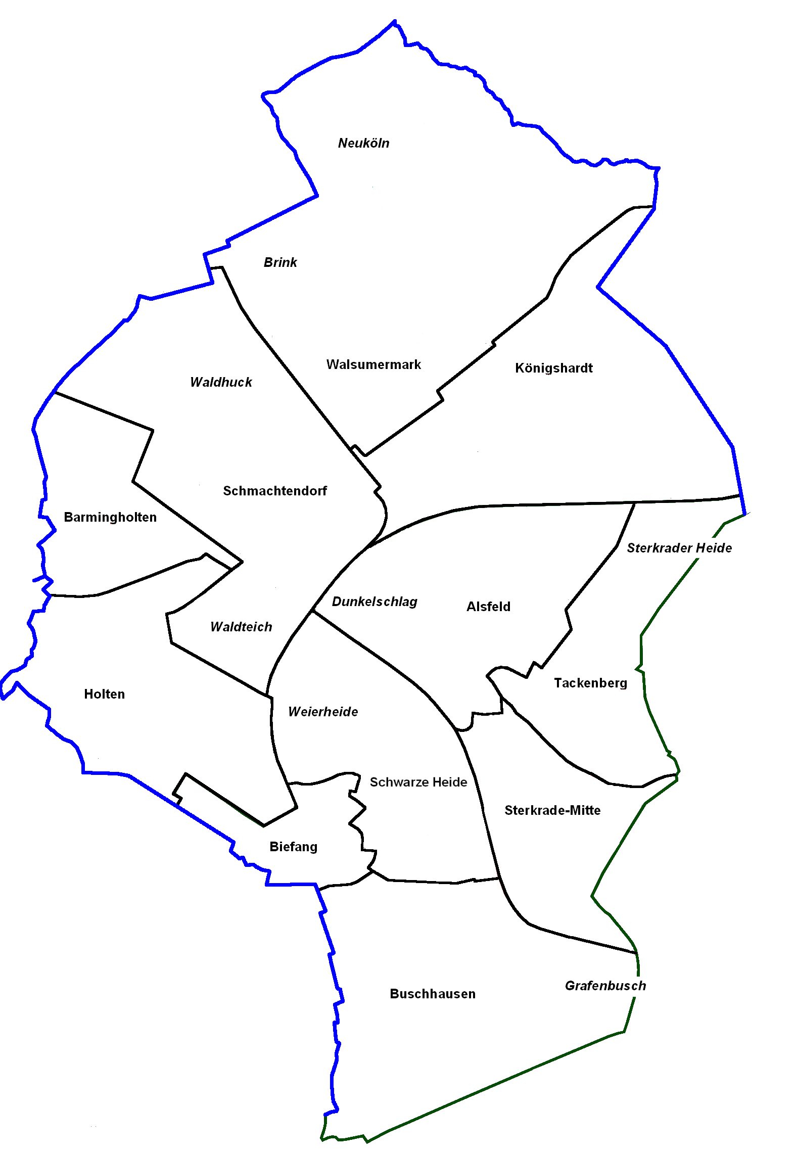 map of Sterkrade